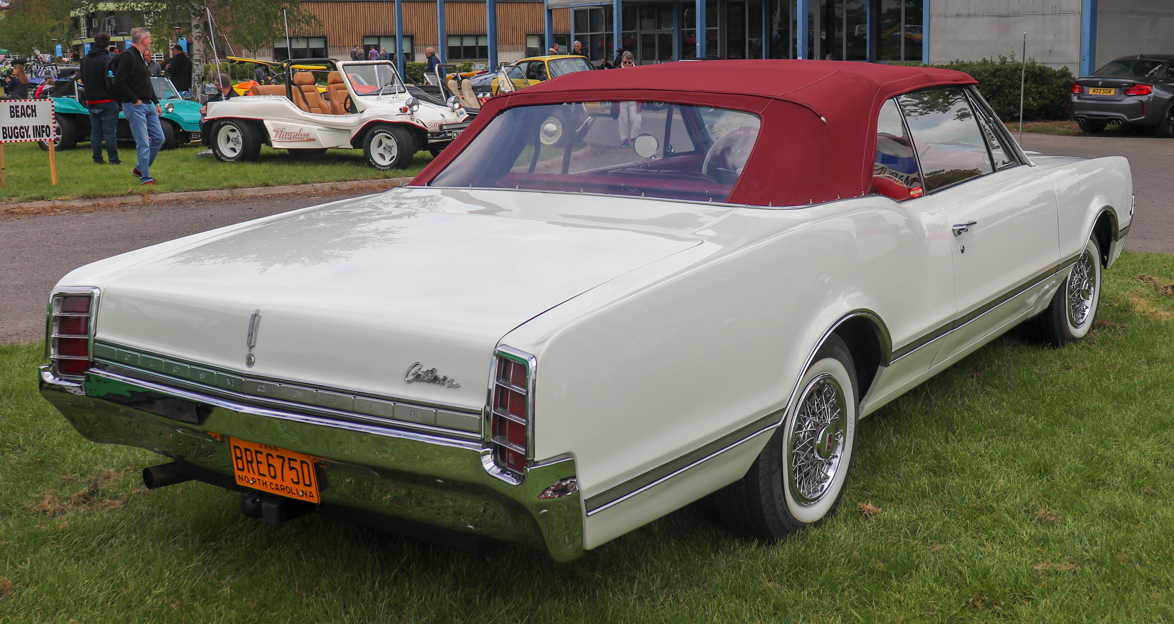 1966 Oldsmobile Cutlass Convertible 6.6 Rear Taken at the Stoneleigh National Kit Car Motor Show 2019